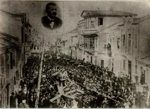 Funeral of greek revolutionary Theodoros Modis in Bitolya (Monastir), Ottoman empire